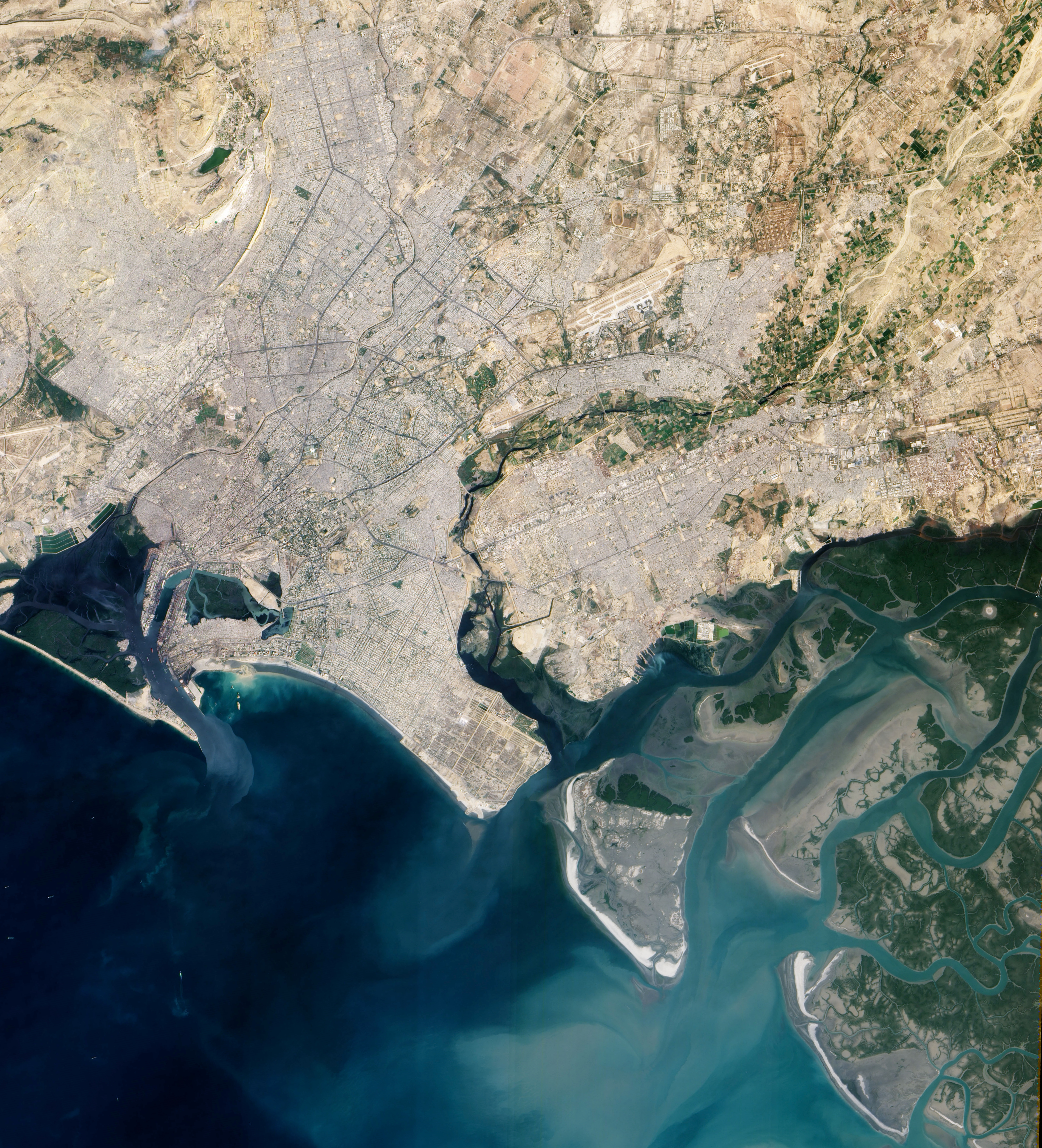 Karachi from space